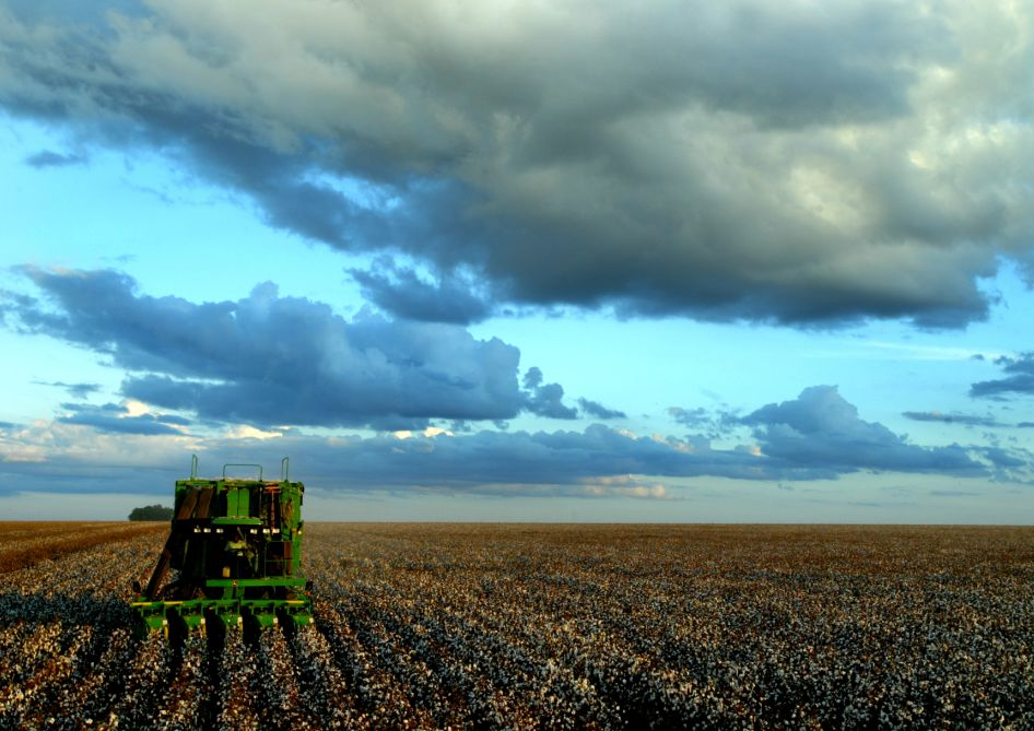 John Deere cotton harvester ("cotton picker") in Brazil.